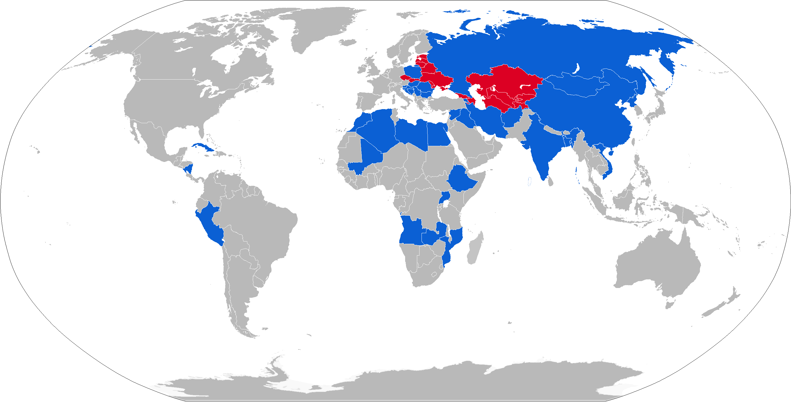 Map with 9M14 operators in blue and former operators in red